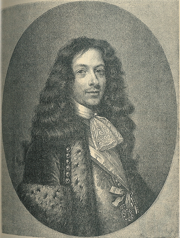 Danish politician Peder Griffenfeld